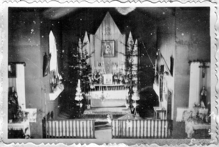 Dworszowice Pakoszowe, old church. Interior view.